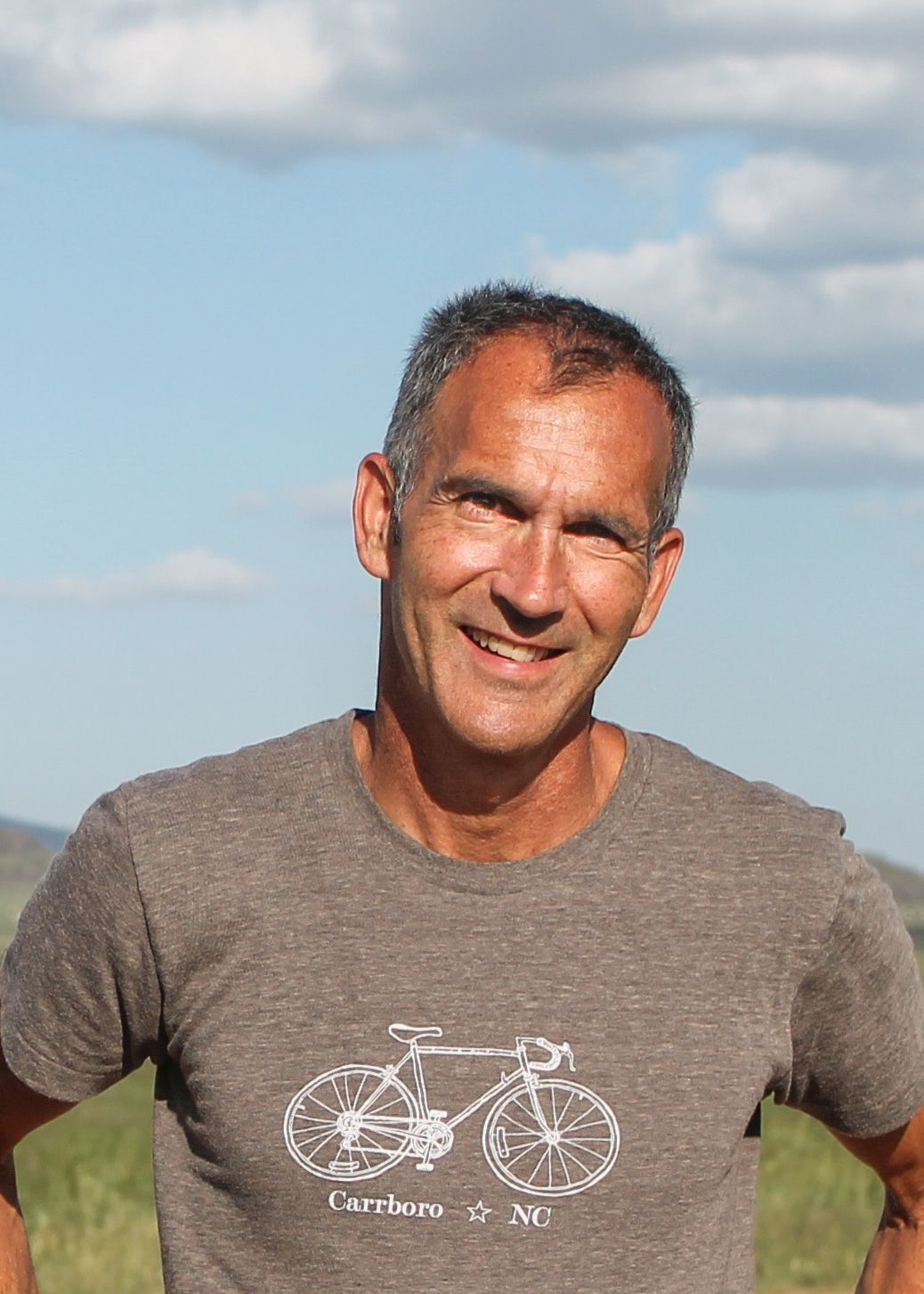 Michael Parker